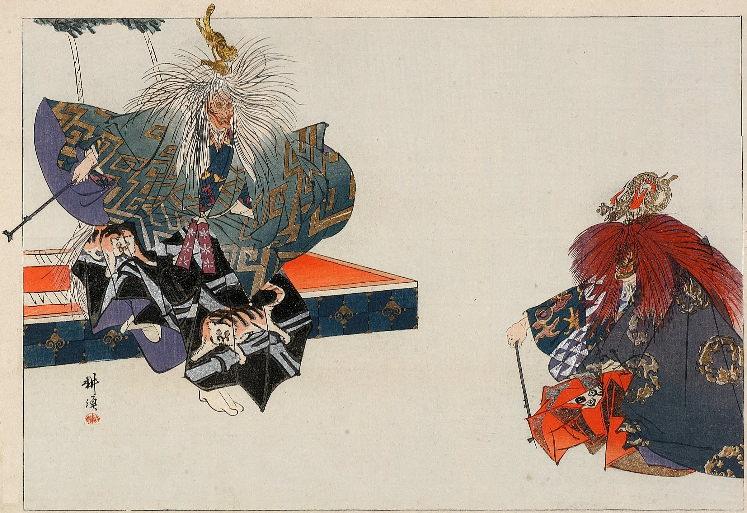 Scene from Nô-play "Ryû-Ko"